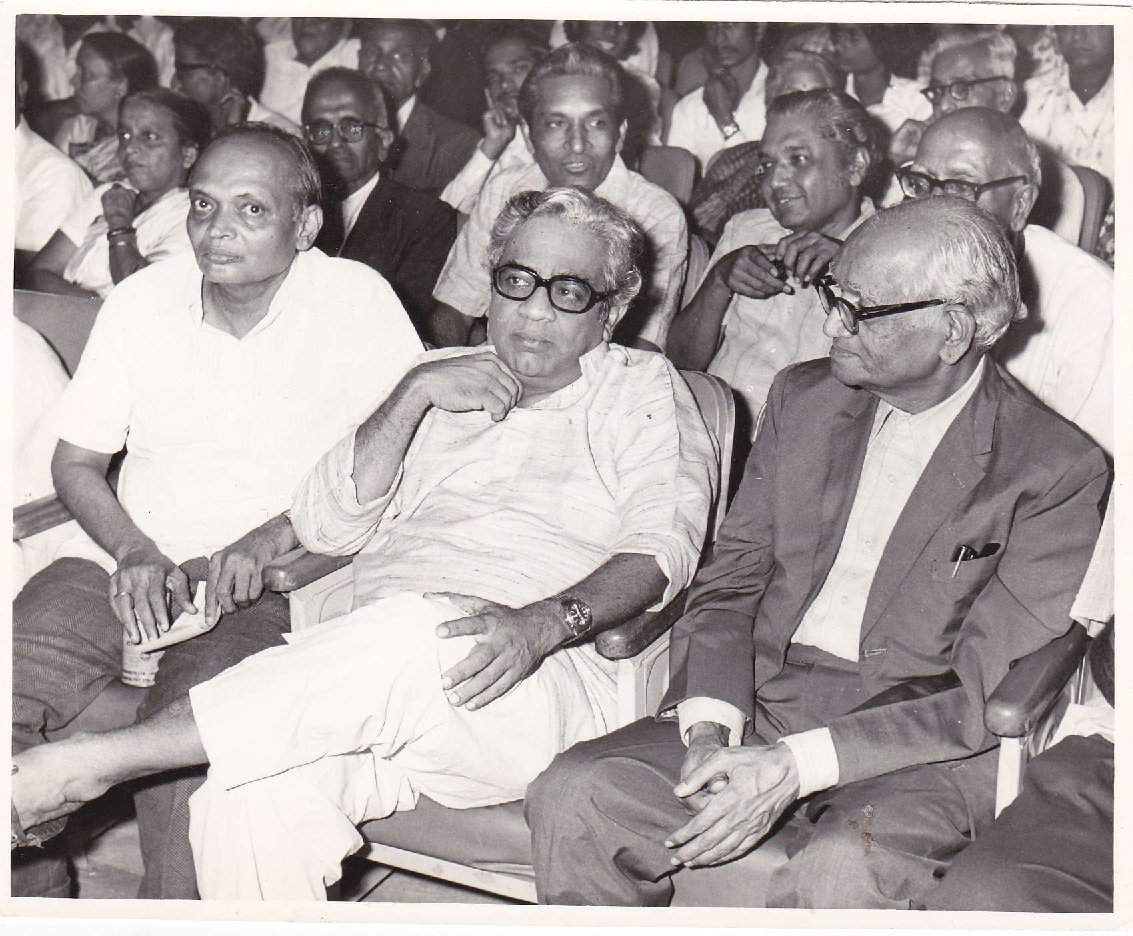 Suresh Joshi with Marathi writer P. L. Deshpandey, at the age of 55, at Vadodara, Gujarat.